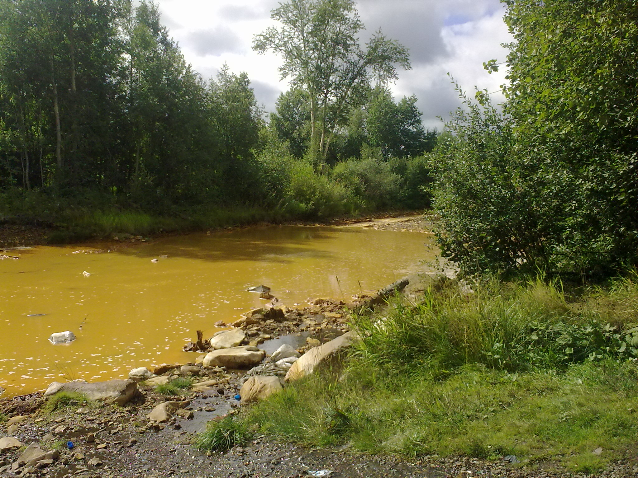 River Kizel